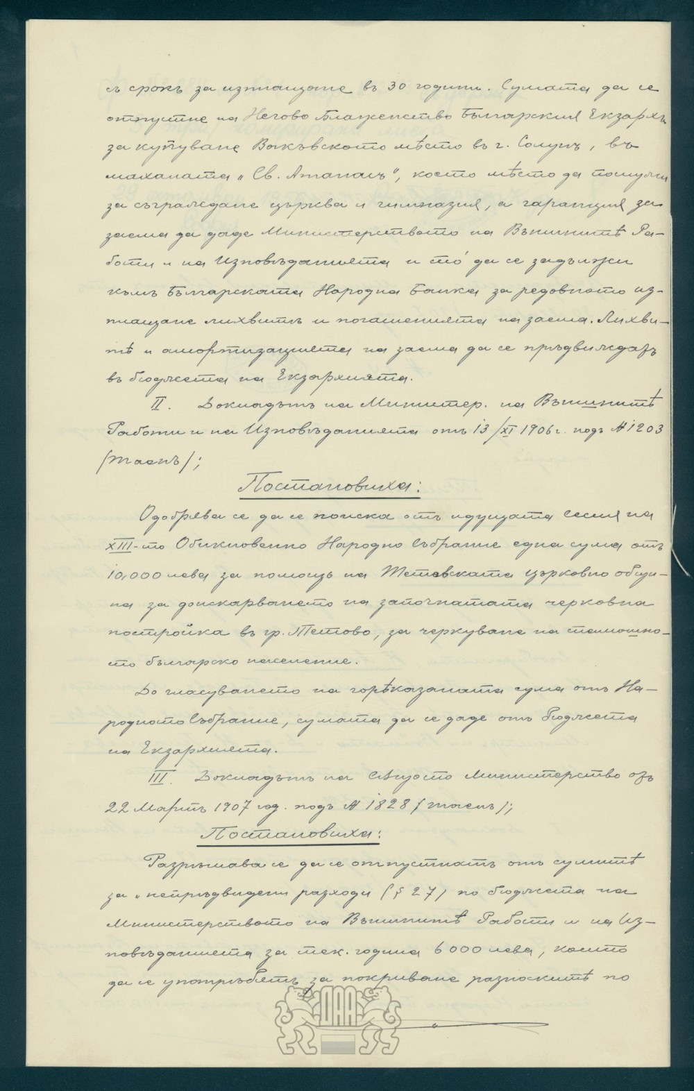 Bulgarian Cabinet Decision for allocation of funds 30 March 1907 - Page 2